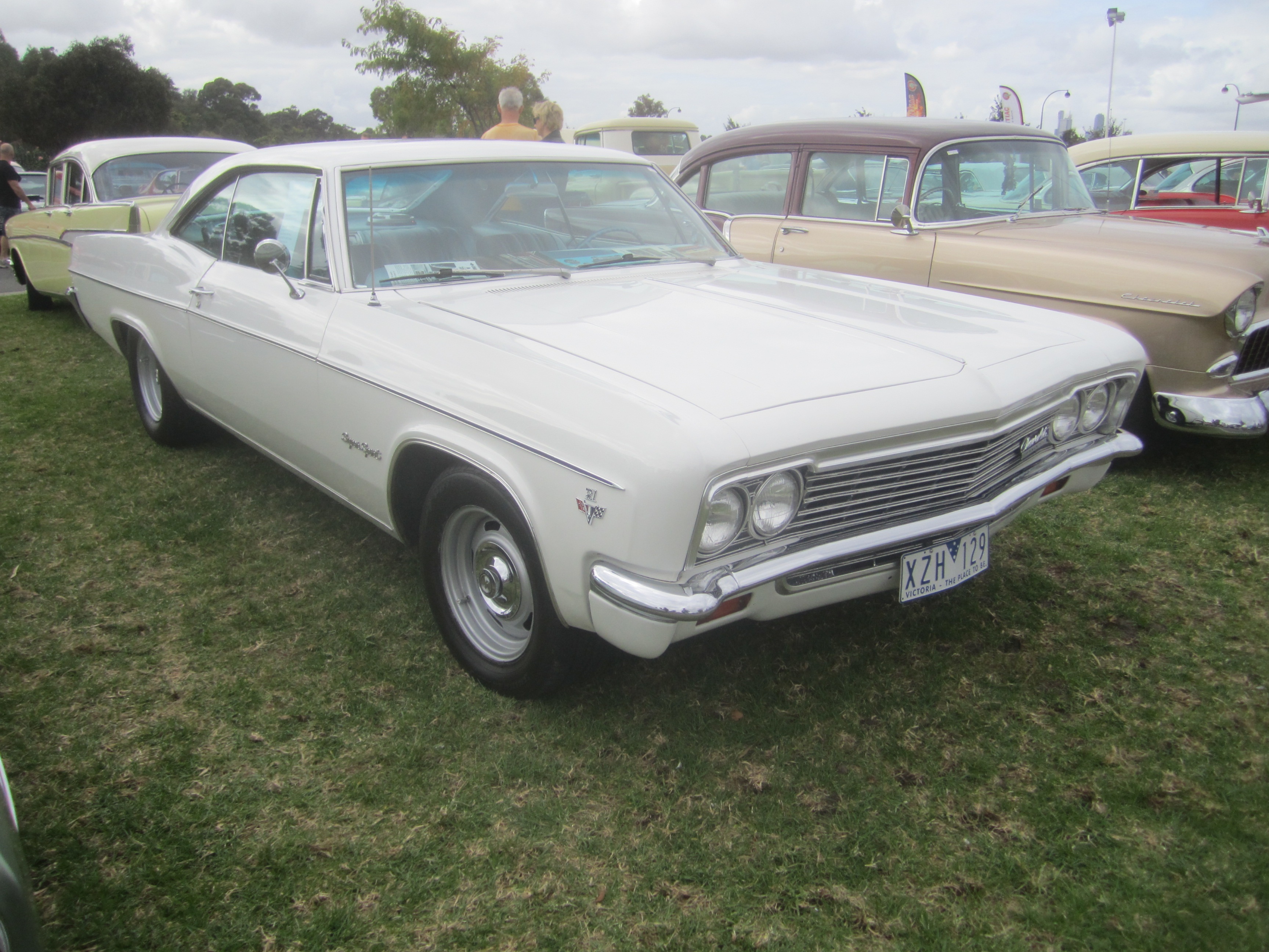 The all new 1965 Chevrolet got a facelift in 1966, the front fenders thrusting forward and a revised grille. The tail lights now rectangular (still triple on Impala and double on Bel Air and Biscayne) Available in Sedan, 2 and 4 door Hardtop, Coupe, Convertible and Wagon. Models; Biscayne, Bel Air, Impala (Super Sport option) and Caprice.( top-line, included a two-door hardtop with a squared-off formal roofline (in contrast to the Impala/SS coupe's fastback roof). Chevrolets were also produced in Australia by General Motors using modified American bodies from 1926-68. Engines; 250 6 cyl, 283, 327, 396, 409 and 427 V8s